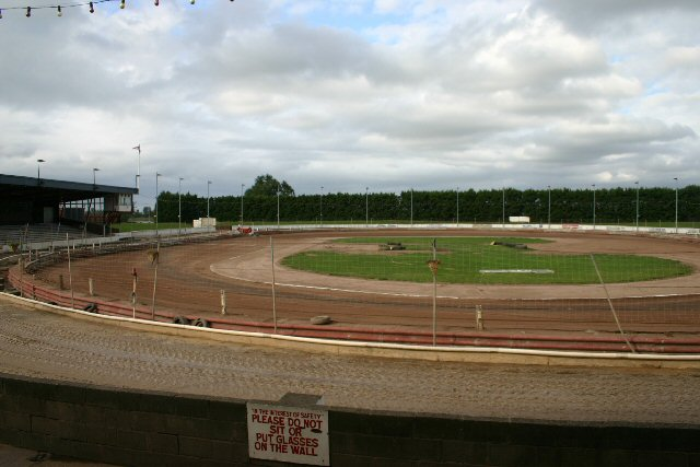 West Row Stadium. Used for greyhound racing (outer track) and the Mildenhall Fen Tigers speedway team (inner track).